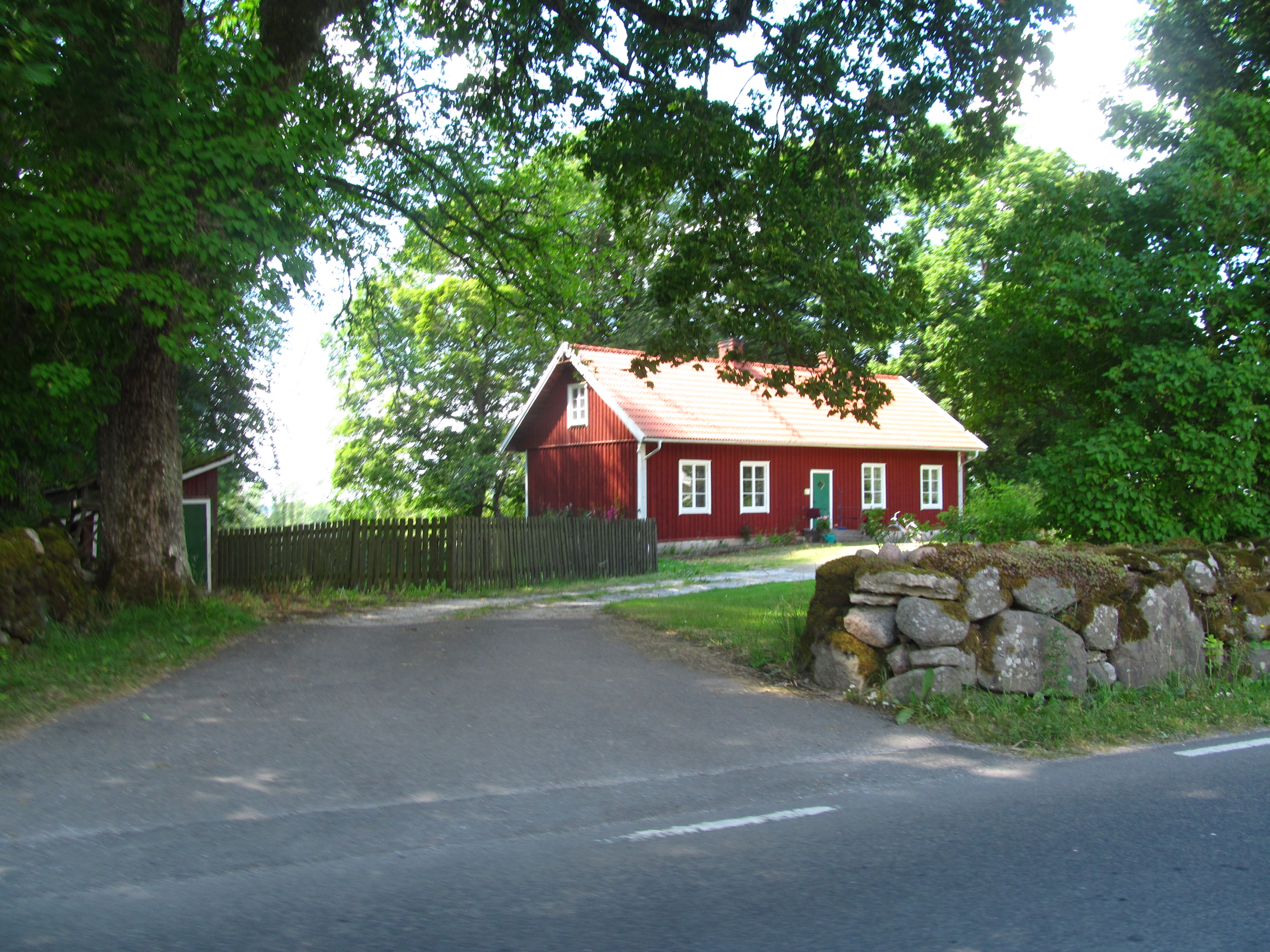 Place of Bolum old church, probably built in the 12th century and demolished around 1820. Current building was built 1874 on the same location as the old church and was in use as a school until the 1950s. Now used as a private residence.